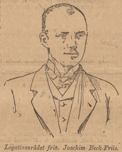 Engraving of the Swedish nobleman Joachim Beck-Friis (1861-1939), by an anonymous artist. Published in Svenska Dagbladet 1902-03-30 (84), p. 5.